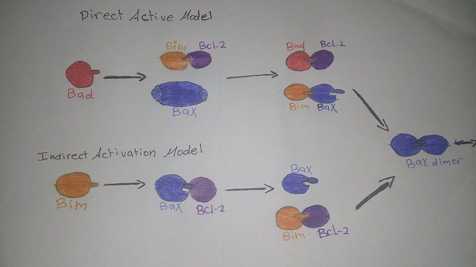 المقارنه بين نماذج التفعيل المختلفه من بروتين ثلاثي هيدريد البورون ,في نموذج التفعيل المباشر يتم الاحتفاظ بمنشط البروتين مثل "بيم"، في الاختيار من البروتينات المؤيدة للبقاء على قيد الحياة حتى يتم استبدالها ب"المحسسات" من بروتين BH3 مثل "باد".في النموذج الغير مباشر يتم منع الربط الكيميائي بين البروتينات المنشطه مع البروتينات المؤيده للبقاء على قيد الحياه .